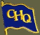 GHQ Southwest Pacific Area (SWPA) shoulder sleeve insignia